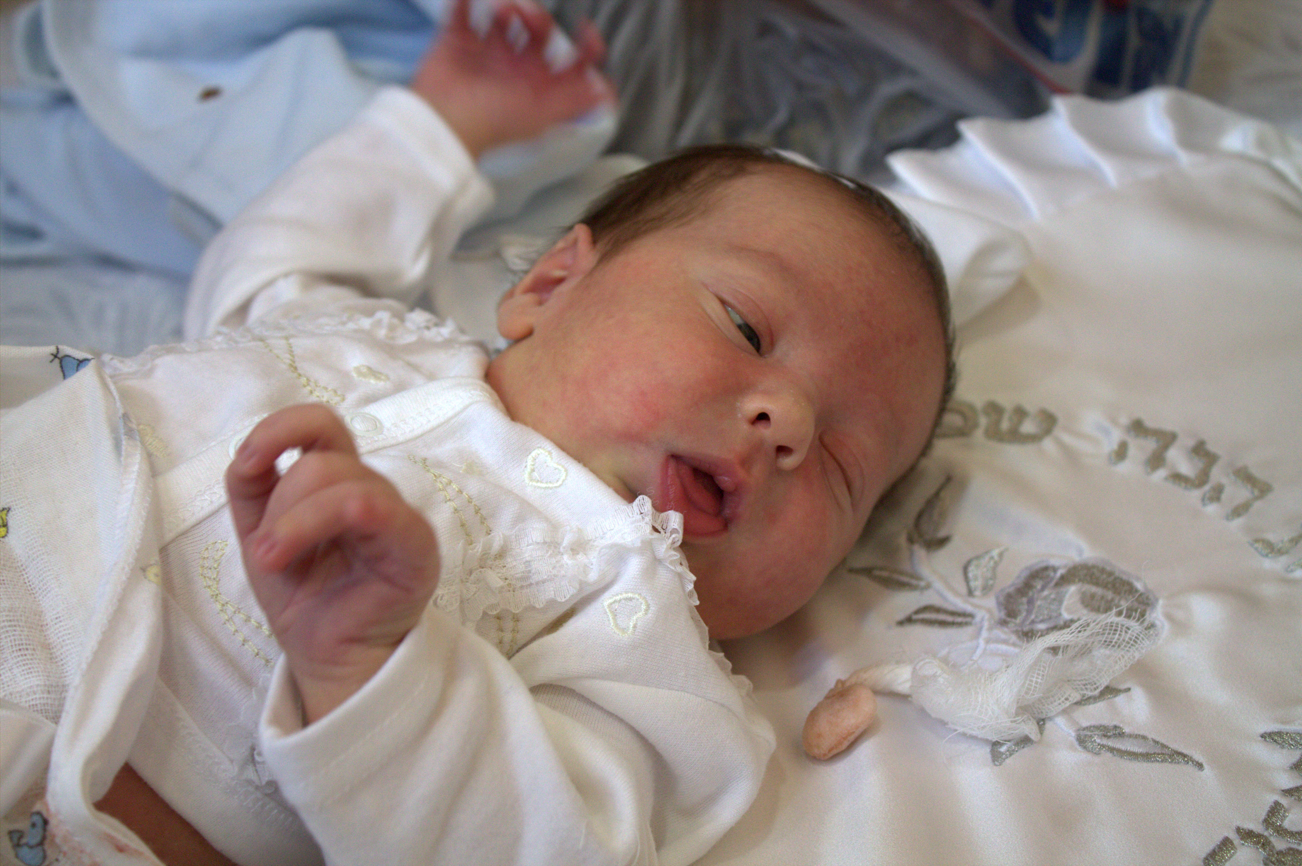 תינוק לאחר ברית מילה covenant of circumcision